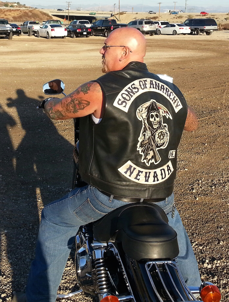 Gallo on Set